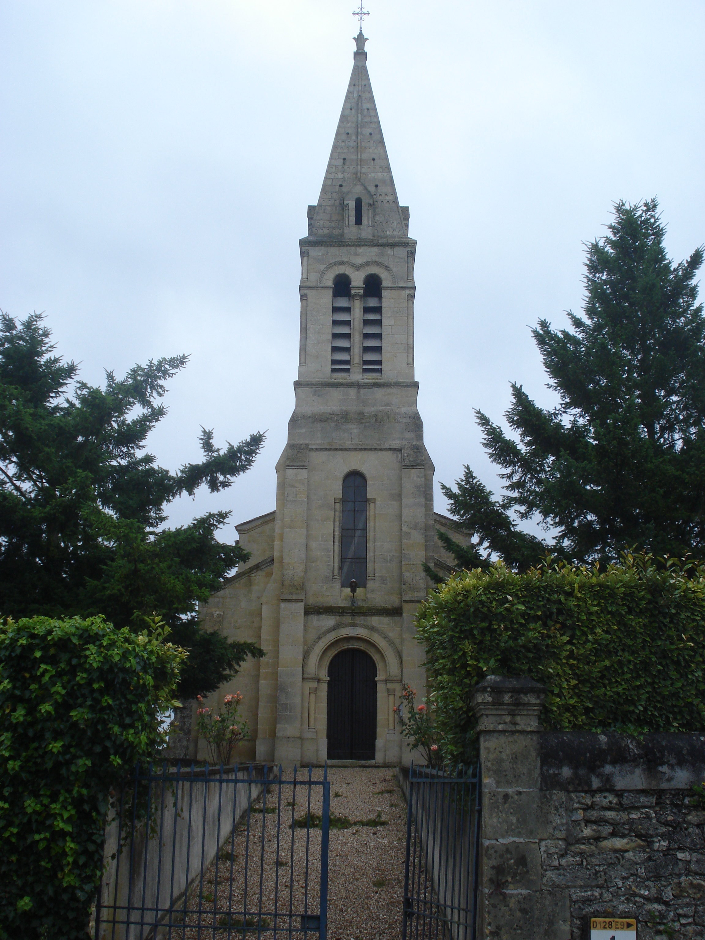 Caplong (Gironde, Fr), churchtower